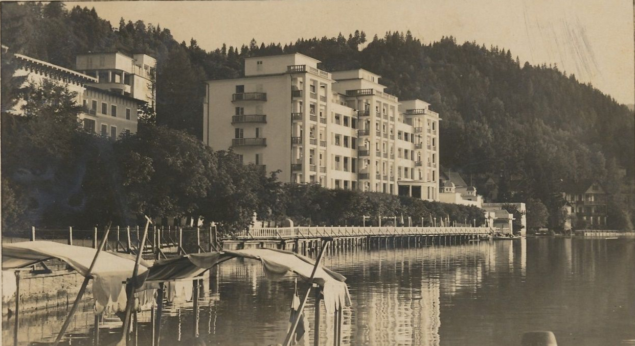 Postcard of Bled.